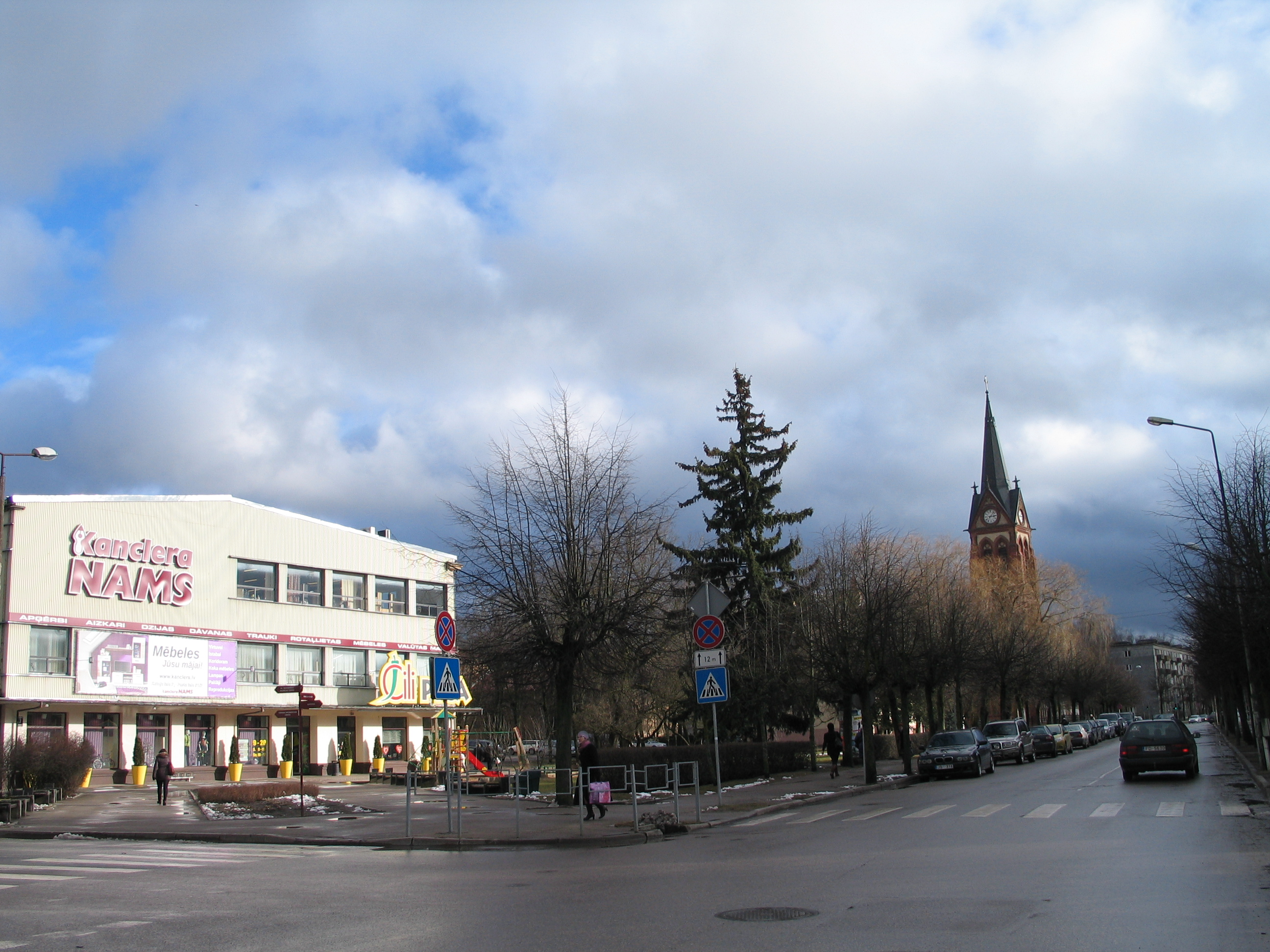 Katoļu Street in Jelgava